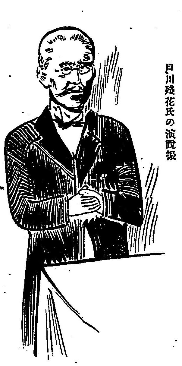 Togawa Yasuie (戸川安宅) or (Zanka 残花) had always clasped his hands together in his speeches.